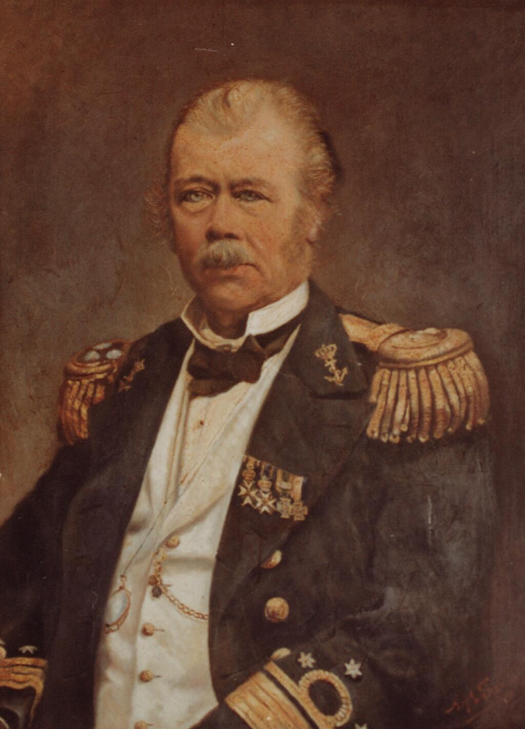 Frederik Lambertus Geerling (1815-1894) was a Dutch vice admiral and Secretary of the Navy.